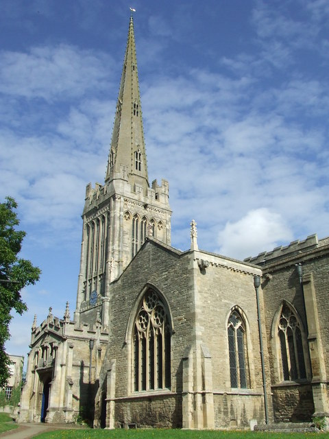 St Peter's Church Oundle The church of St Peter's Oundle, Northamptonshire. For more info